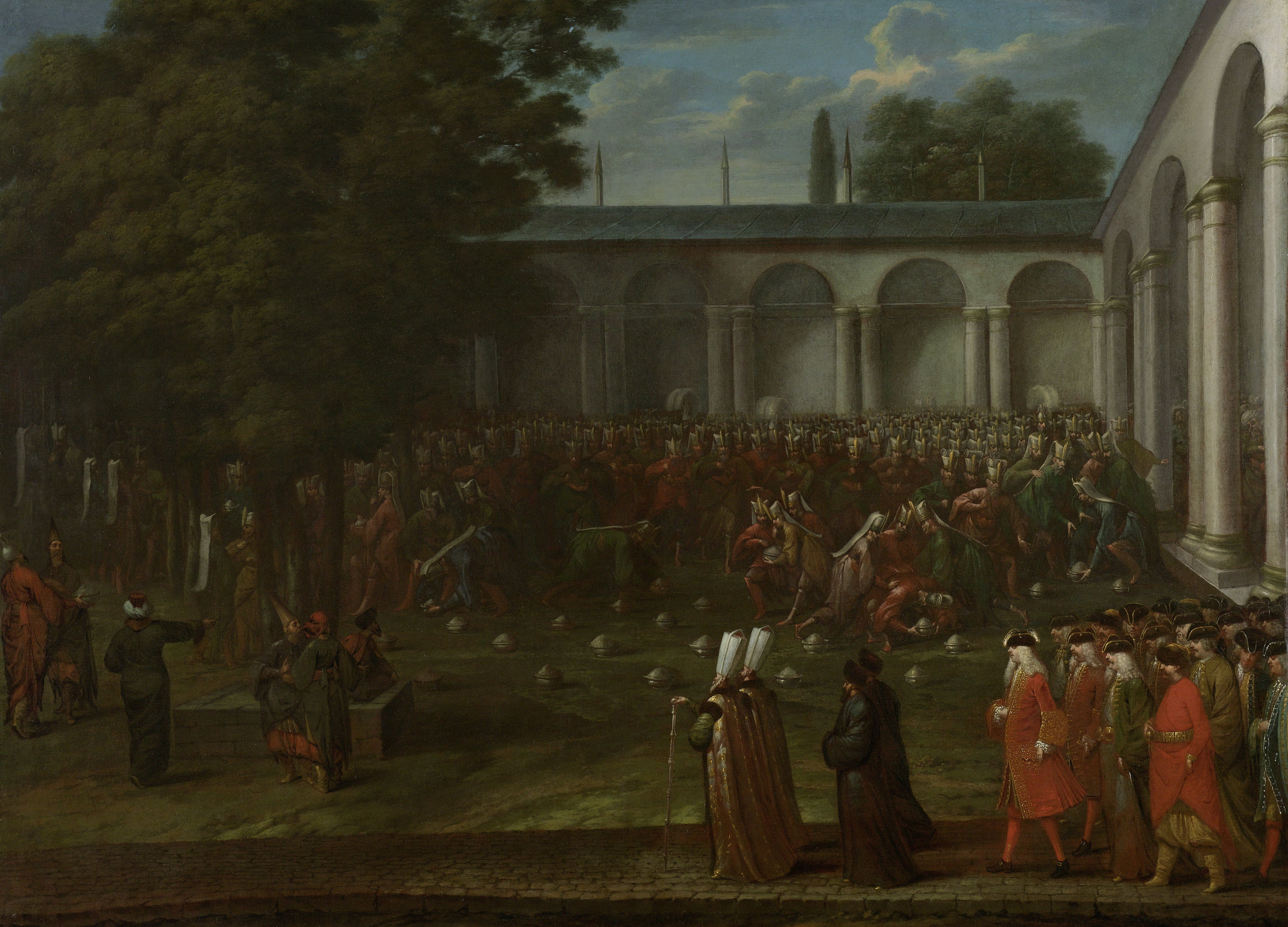 Ambassador Cornelis Calkoen walks through the second courtyard of the sultan's palace, where a banquet for the Janissaries is held. He is on his way to an audience with sultan Ahmed III on 14 September 1727. The procession is led by two officials with high hats and silver staffs, followed by two interpretors, the ambassador and his entourage. In the background the Janissaries are throwing themselves on the sishes of rice. Part of a series of paintings with Ottoman subjects brought to the Netherlands from Turkey by ambassador Cornelis Calkoen and bequaethed to the Board of Directors of the Levantsche Handel in Amsterdam in 1817.